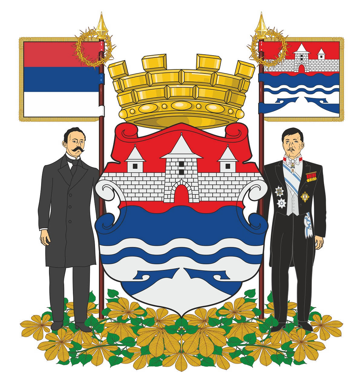 Greater Coat of Arms of Banja Luka(Left is Petar kočić, right is Svetislav Milosavljević) Adopted on July 20, 2017